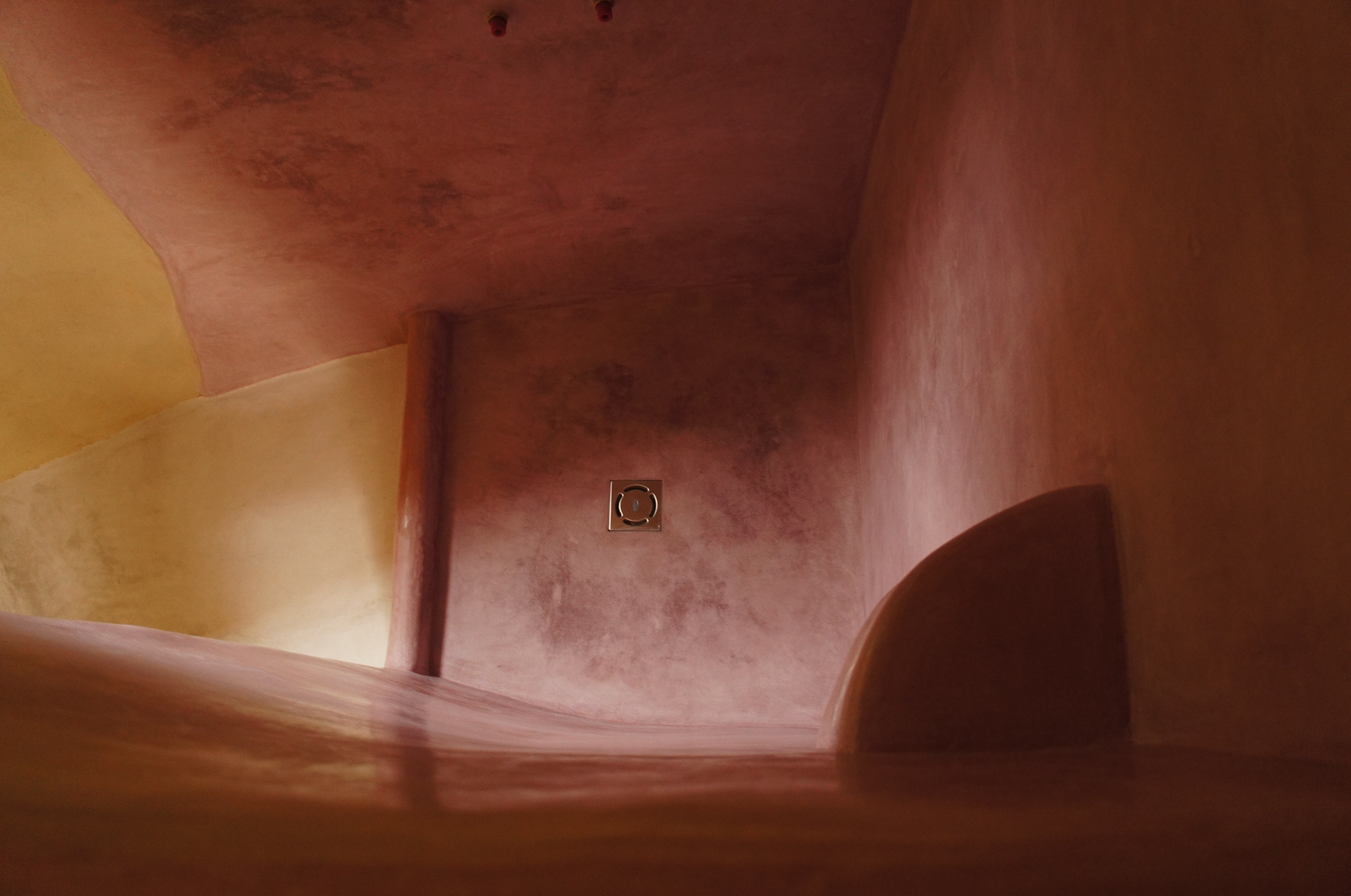 Tadelakt is ideal for humid areas and it can be applied onto walls, floors, washing basins and bath tabs. What makes tadelakt method unique is its ability to form a glazed and impermeable surfaces.